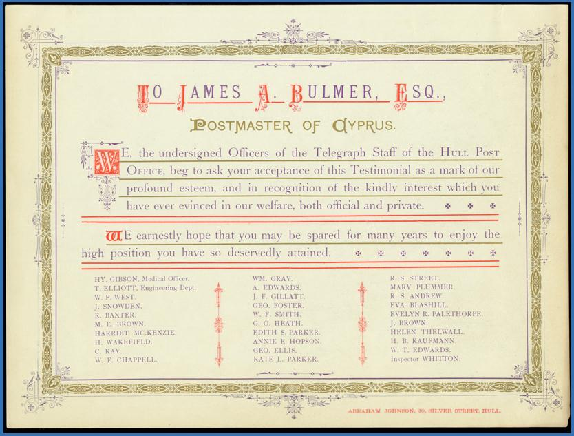 Testimonial (276 x 207mm.) to James A. Bulmer, Postmaster of Cyprus, from the Officers of the Telegraph Staff of the Hull Post Office.